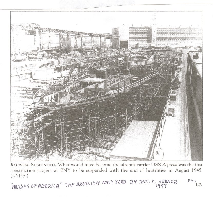 Reprisal constr.